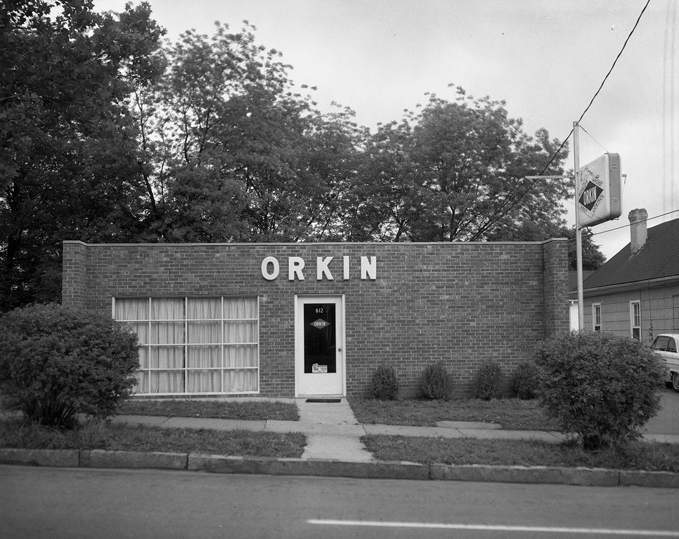 Orkin Exterminators located at 612 Glenwood Avenue in Raleigh, North Carolina. From the Waller Studio Photograph Collection, State Archives; Raleigh, NC.